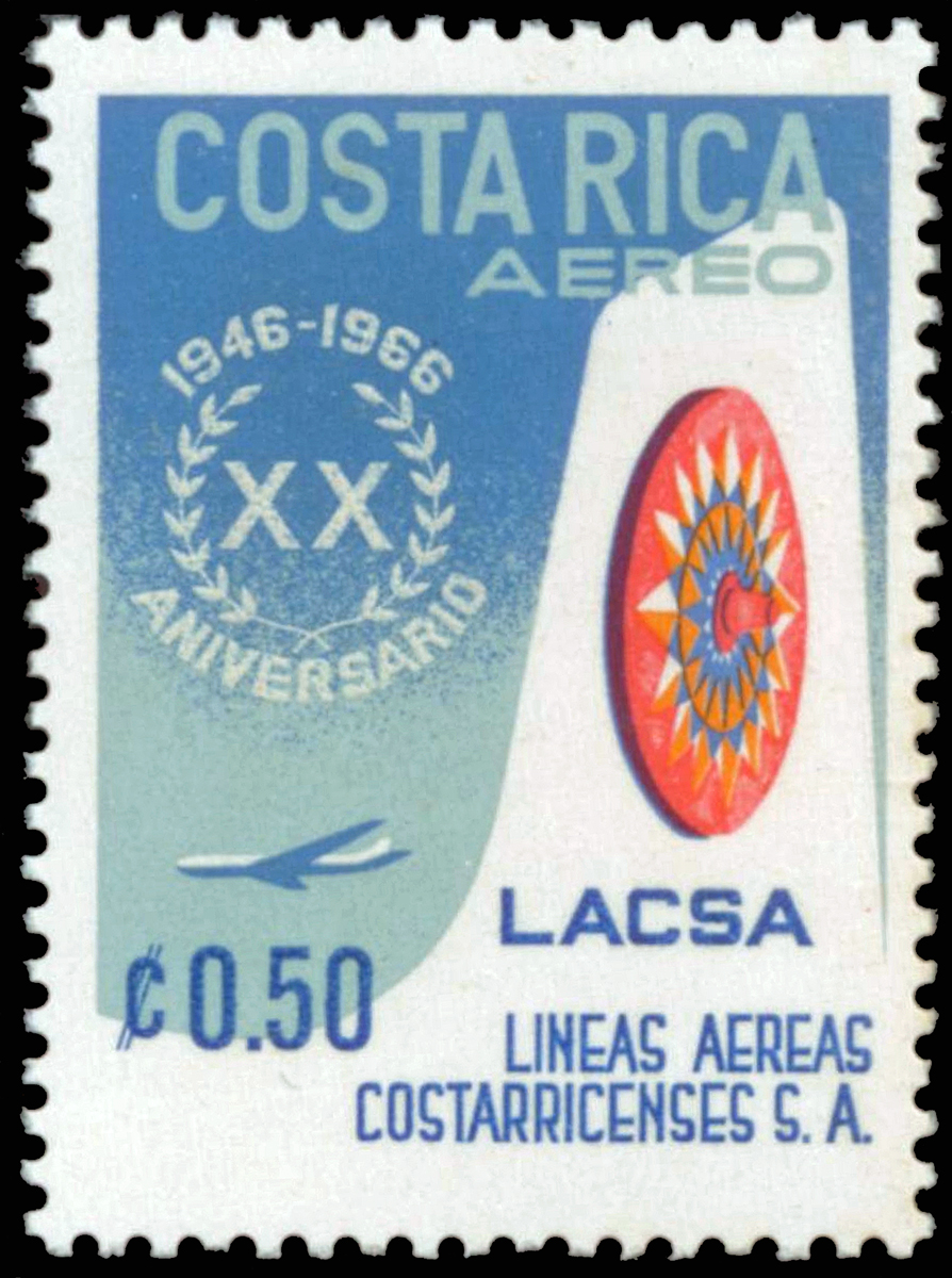 Air mail postal stamp commemorative of LACSA's 20 anniversary (1946-1966) issued in 1967.